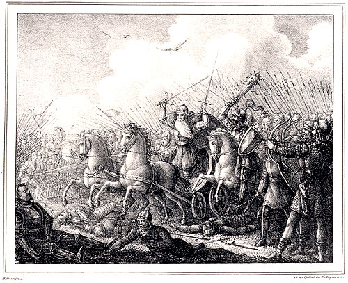 Captioned as "Konung Harald Wildetand [sic] faller i Bråvalla slag (år 740 e. Chr.)", according to the source page, though the W in Wildetand probably is a typo of an H. Etching by Hugo Hamilton, depicting Harald Wartooth falling in the Battle of Bråvalla. Original image size approximately 17 x 22 cm.